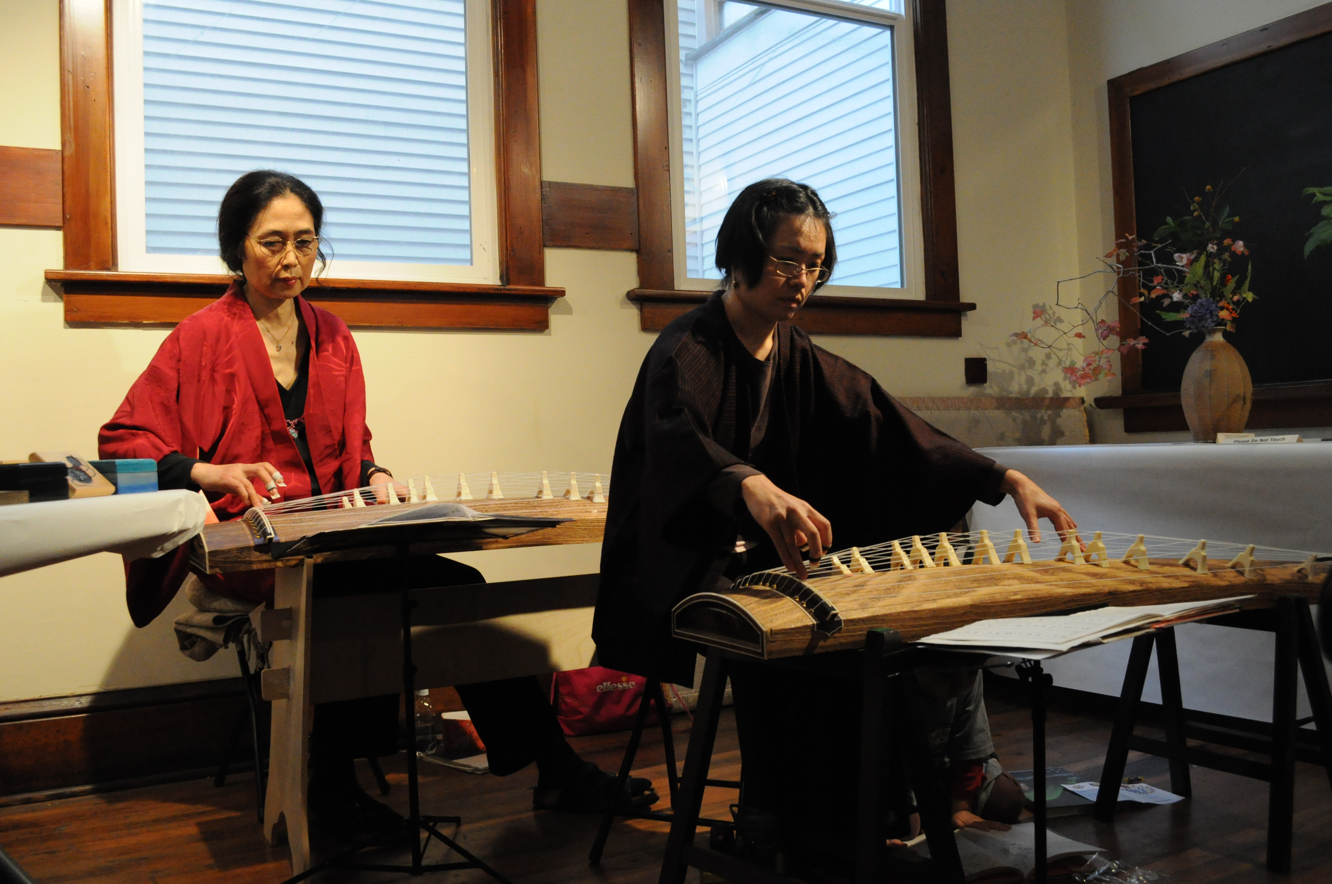 Koto performance during Bunka No Hi, annual Japanese Culture Day at Seattle's Nihon Go Gakko / Japanese Cultural & Community Center. Ikebana in background.